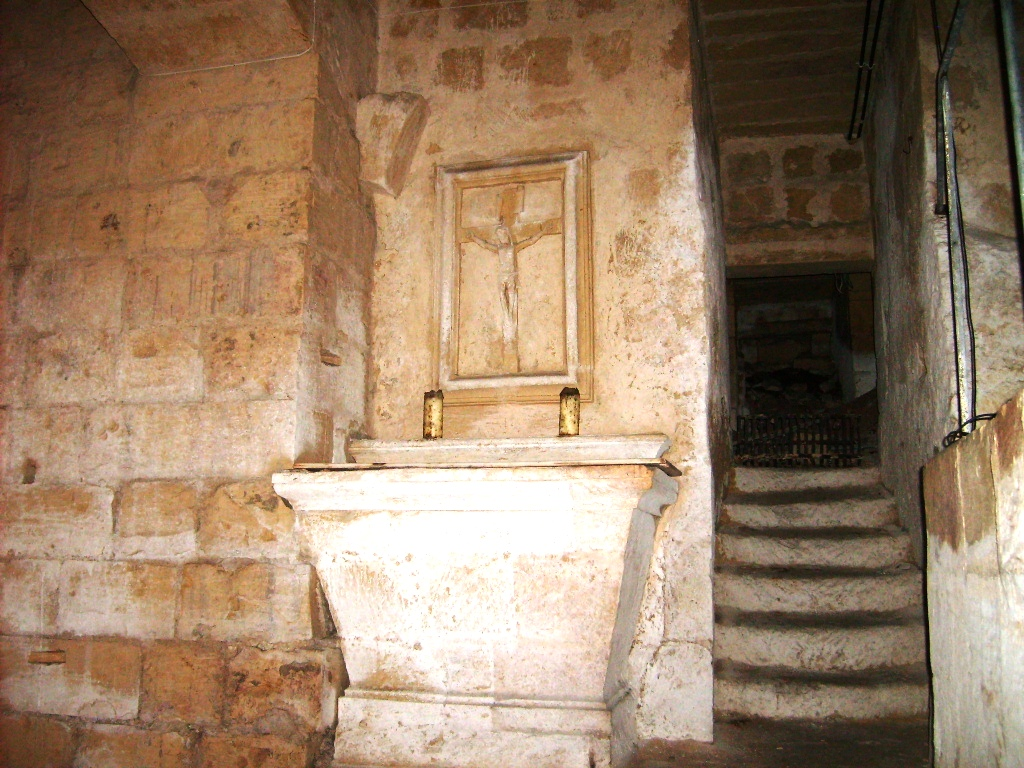 The crypt beneath the parish church of St Paul Shipwreck in Valletta, Malta, where Saviour Montebello is buried.